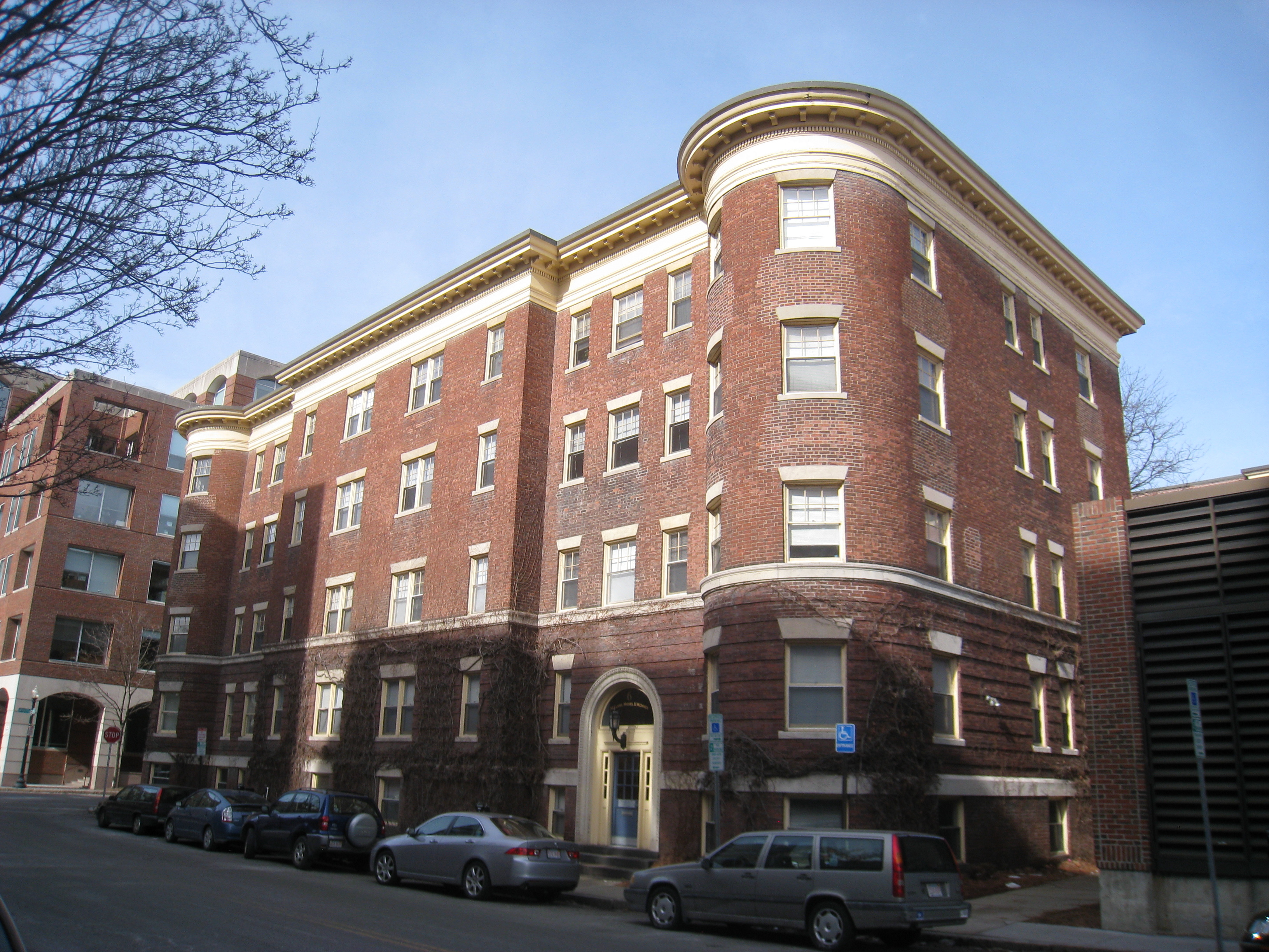 Craigie Arms, 6 Bennett Street, Cambridge, Massachusetts, USA. This building is on the National Register of Historic Places.